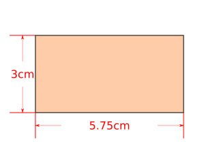 A digram showing the dimensions of a Edmondson railway ticket in Centimetres.